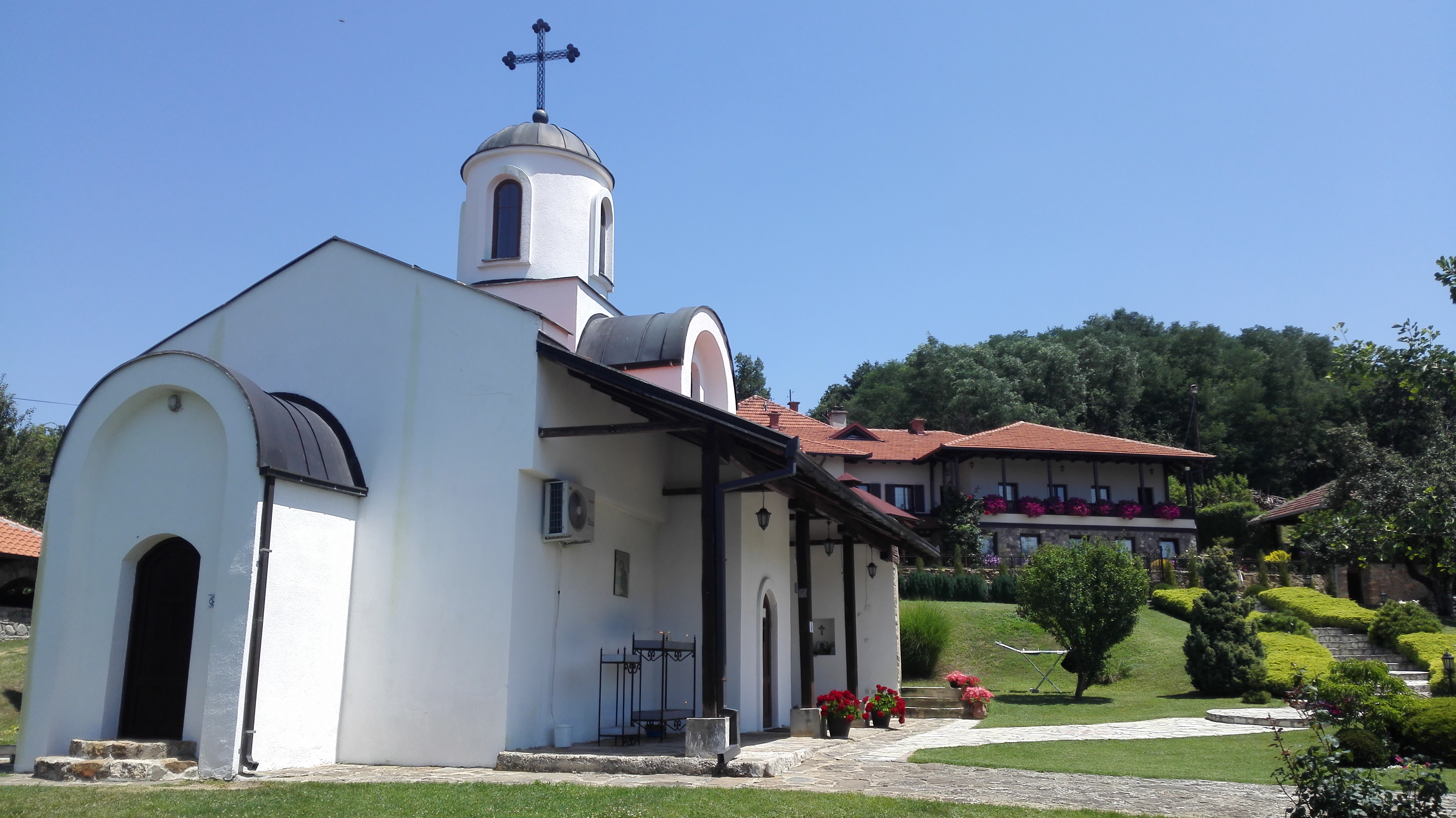 Gornje Žapsko monastery near the city of Vranje, Serbia.